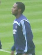 Image of Charles N'Zogbia warming up before a match.